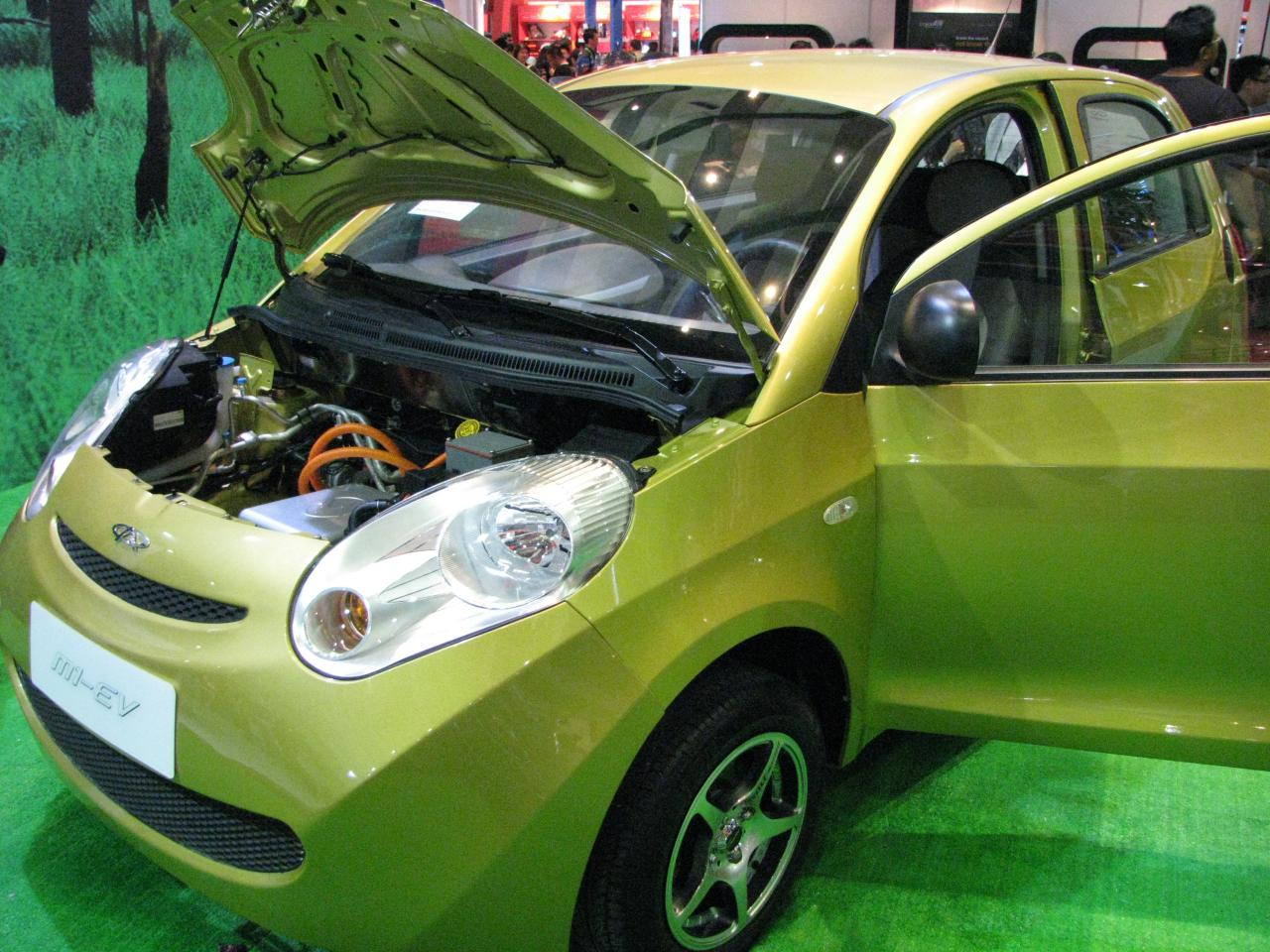 Chery M1 electric car at the 2010 KLIMS.